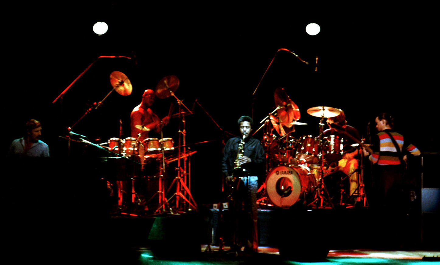 Weather Report, live at Shinjuku Kosei-nenkin Hall (Joe Zawinul (kbd), Wayne Shorter (sax), Jaco Pastorius (b), Peter Erskine (dr) und Bobby Thomas Jr. (perc))